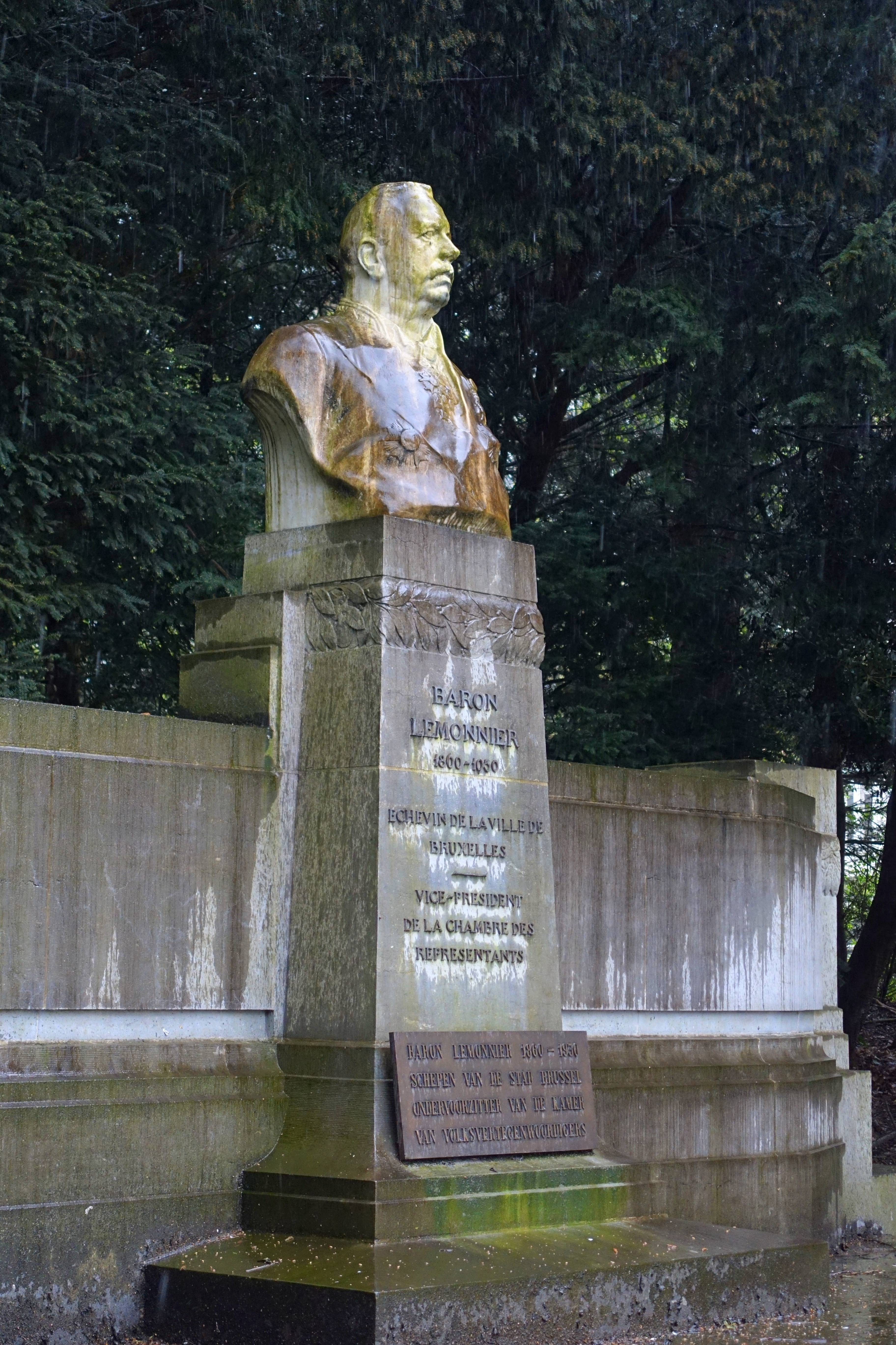 Baron Lemonnier by Frans Huygelen, after a model by Thomas Vinçotte - Brussels, Belgium. This work is in the public domain because both Huygelen and Vinçotte died more than 70 years ago.